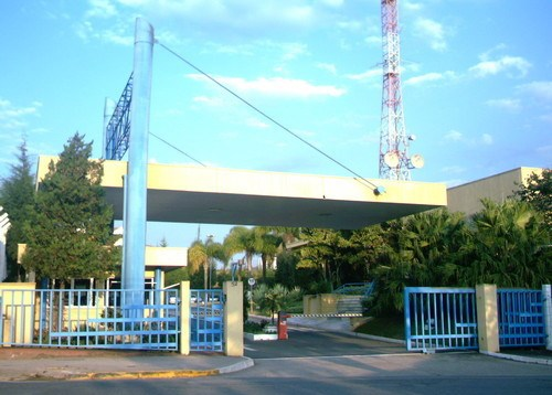 TV Diário - Mogi das Cruzes